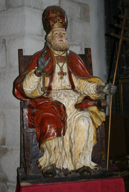 Image of San Pedro, is in the Church of Cupcake Tudela Navarra, from the former Church of San Pedro